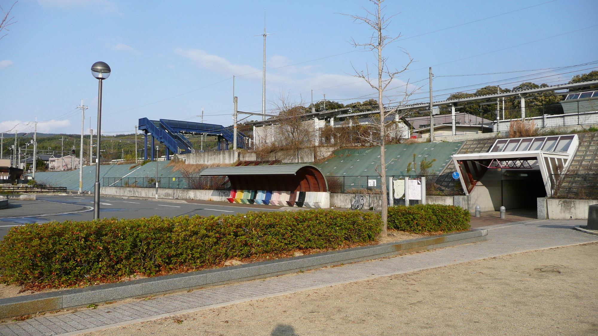 West Japan Railway, Nara Line, Tanakura Station west.